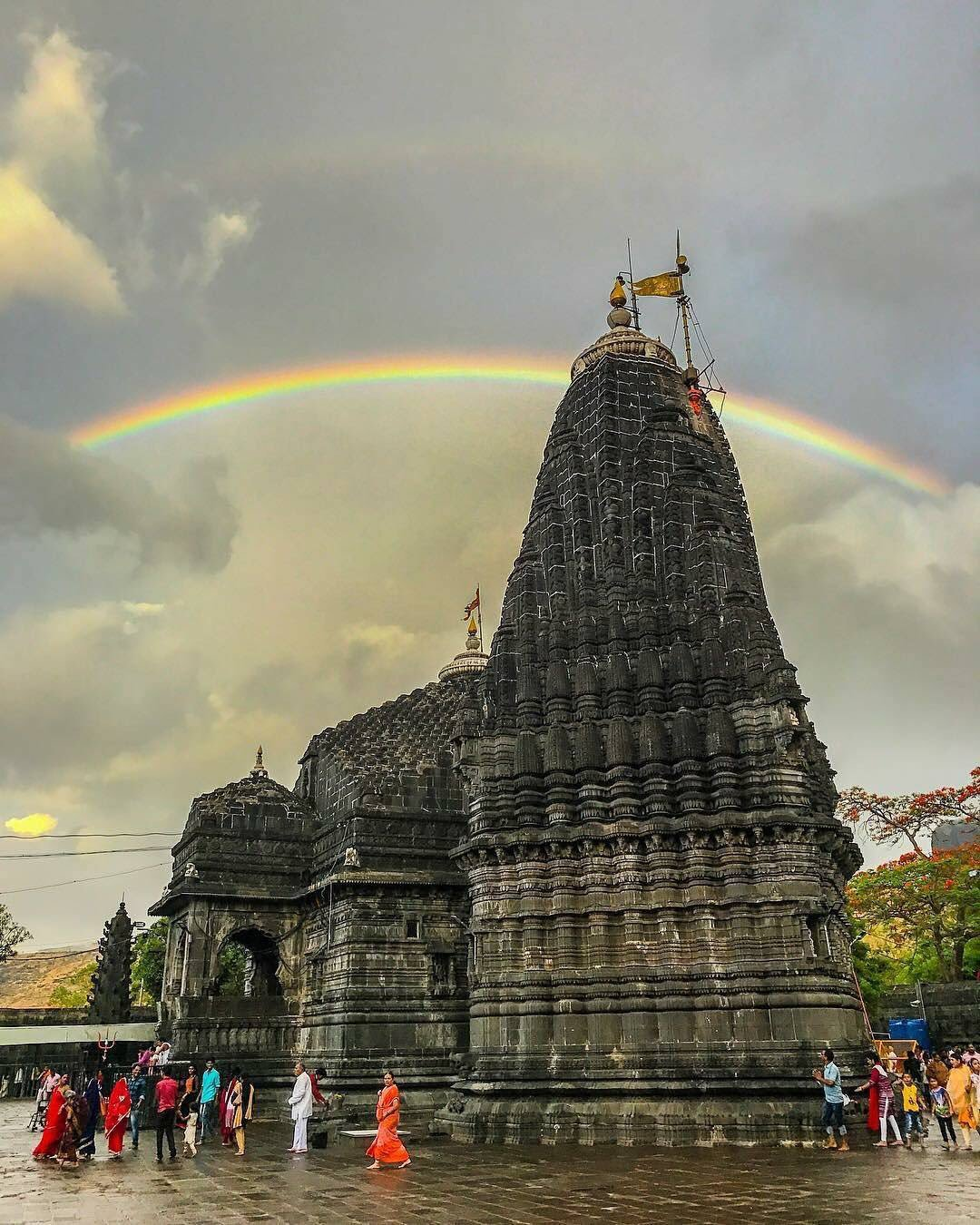 Trimbakeshwar or Tryambakeshwar is an ancient Hindu temple in the town of Trimbak, in the Trimbakeshwar tehsil in the Nashik District of Maharashtra, India